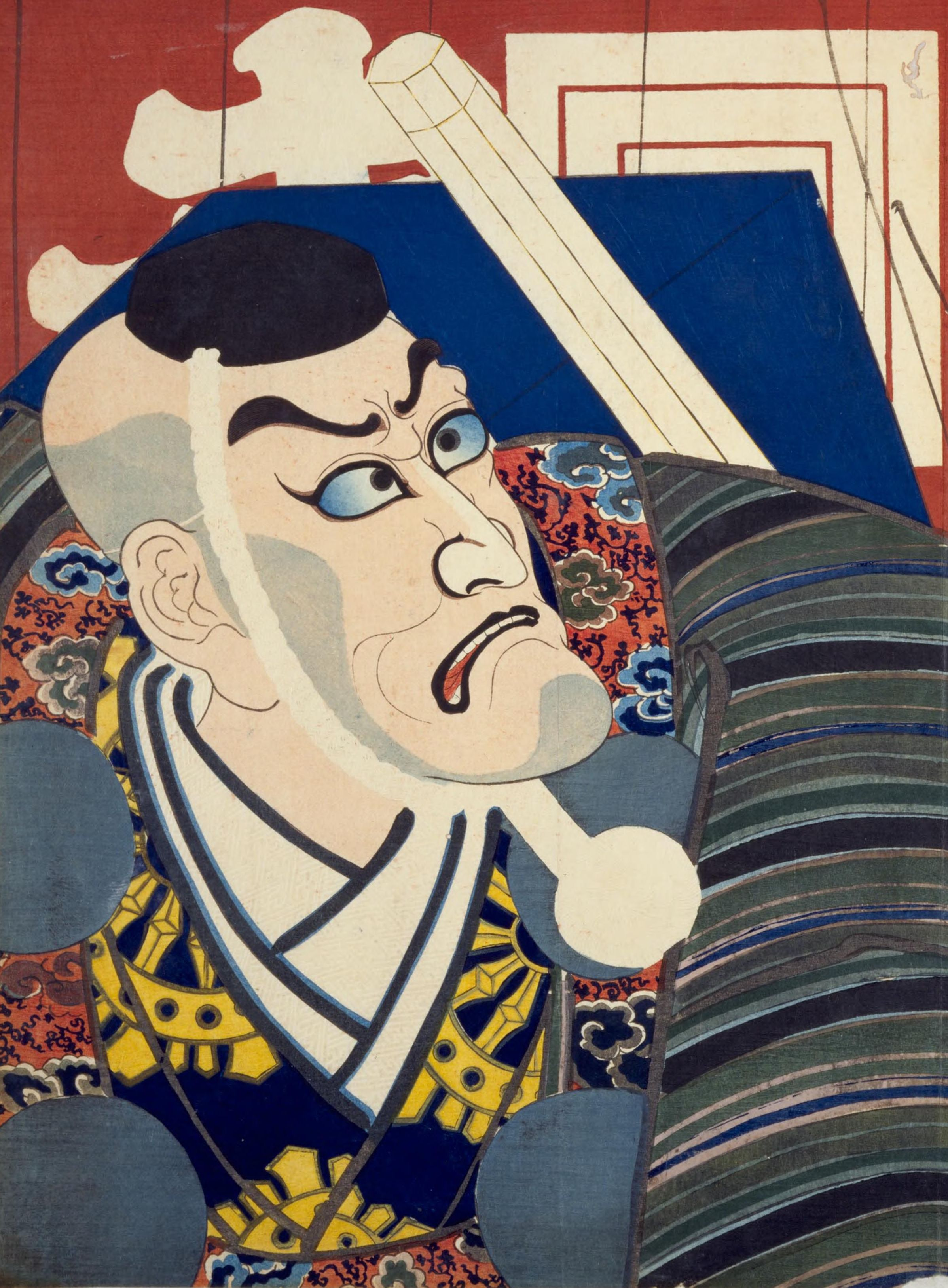 Ichikawa Ebizō V as Musashibō Benkei in Kanjinchō